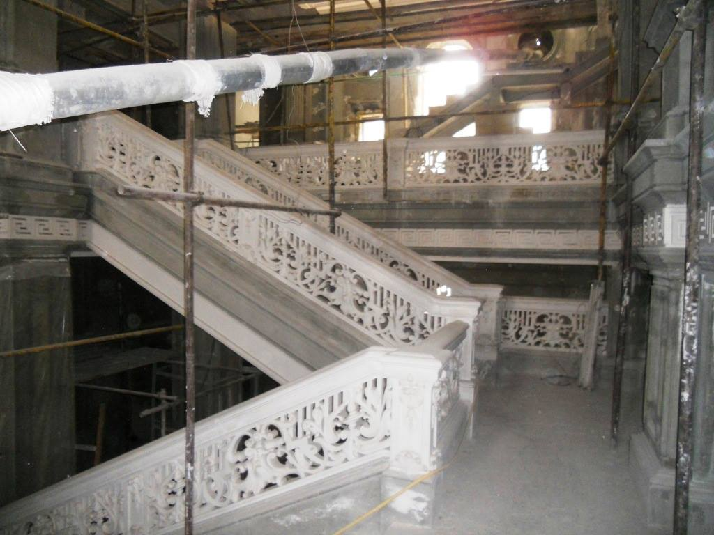 Restoration of building of Dadiani's former girls gymnasium in Chișinău